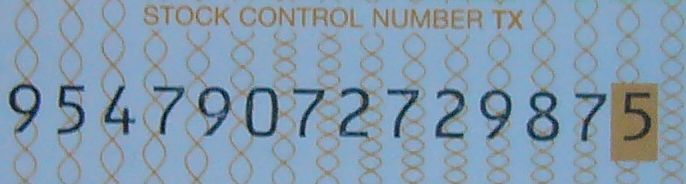 IATA Flight Coupon Stock control number